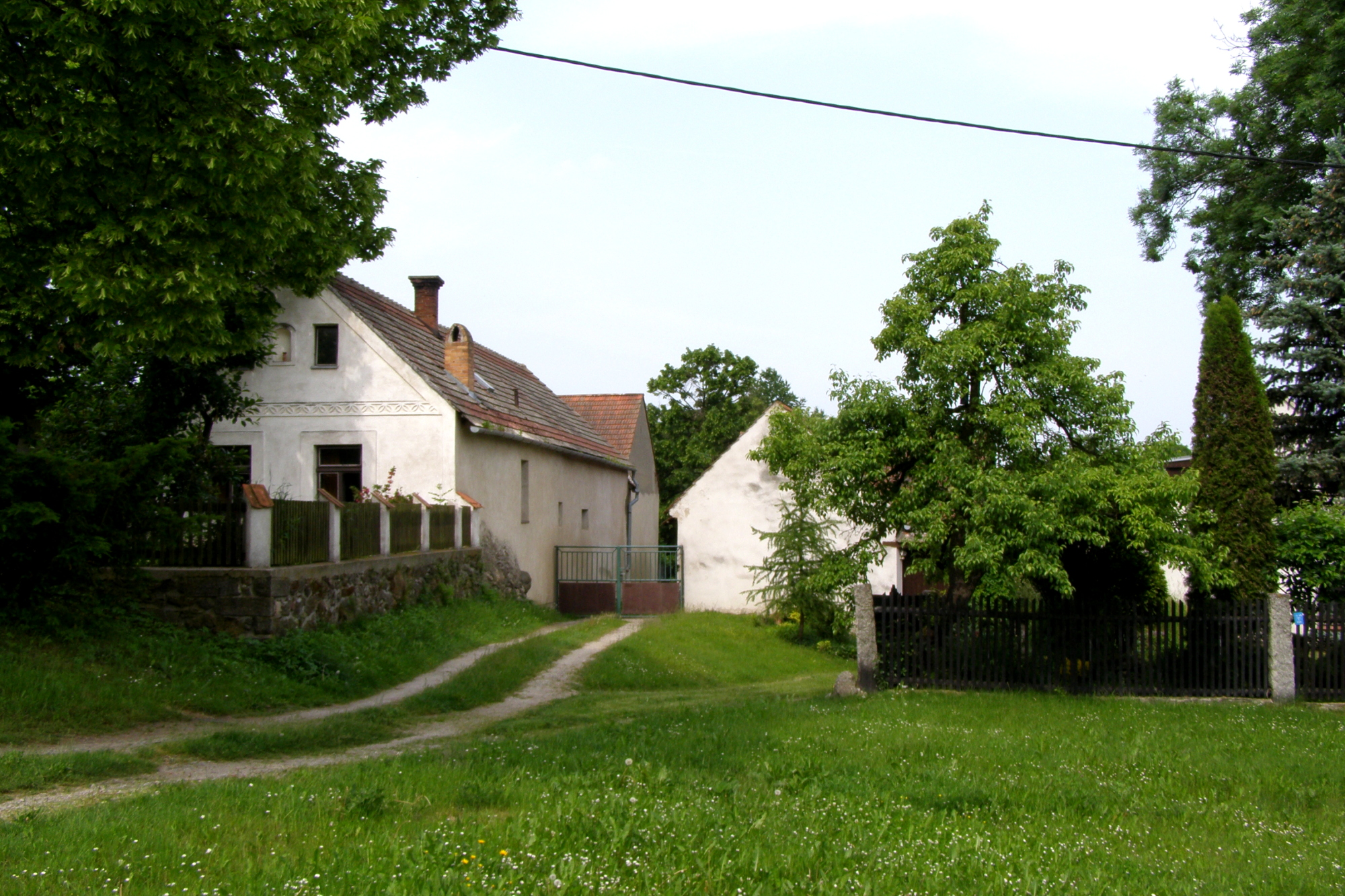 Slavičky-Pozďátky